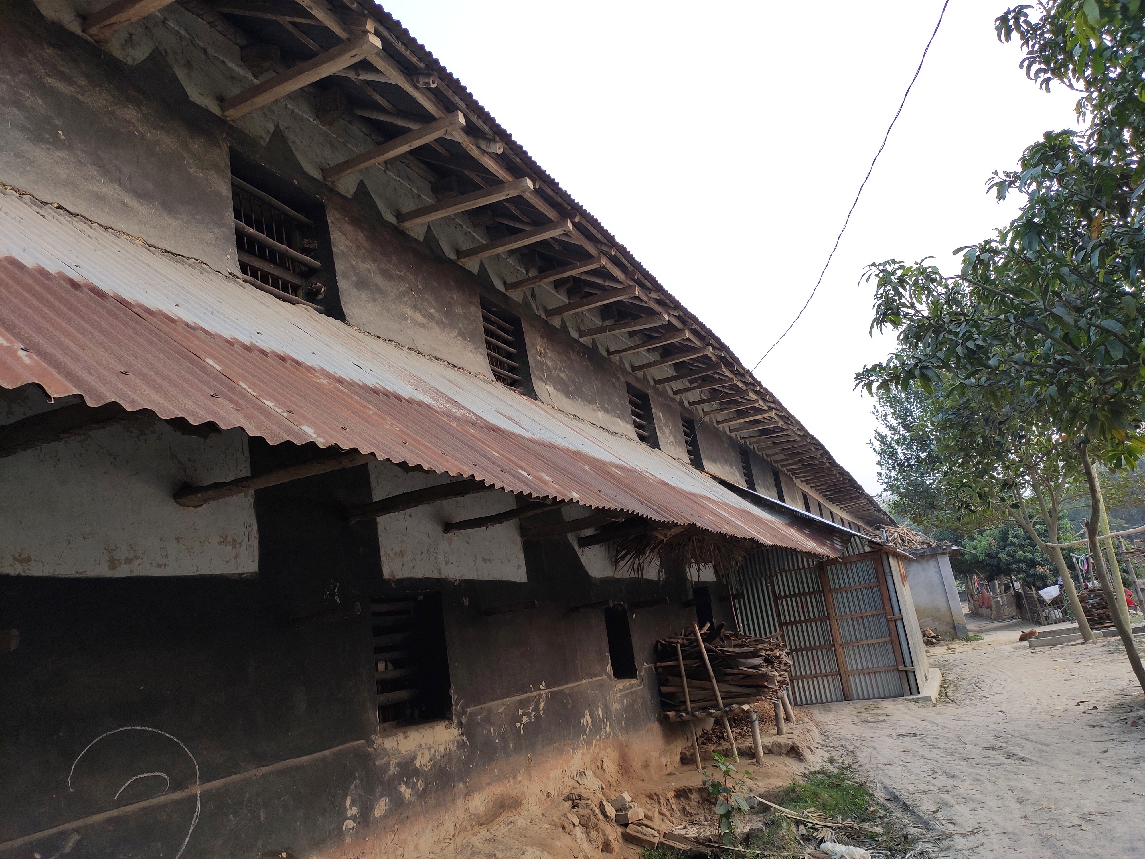 108-room mud house. It is located in naogaon district.